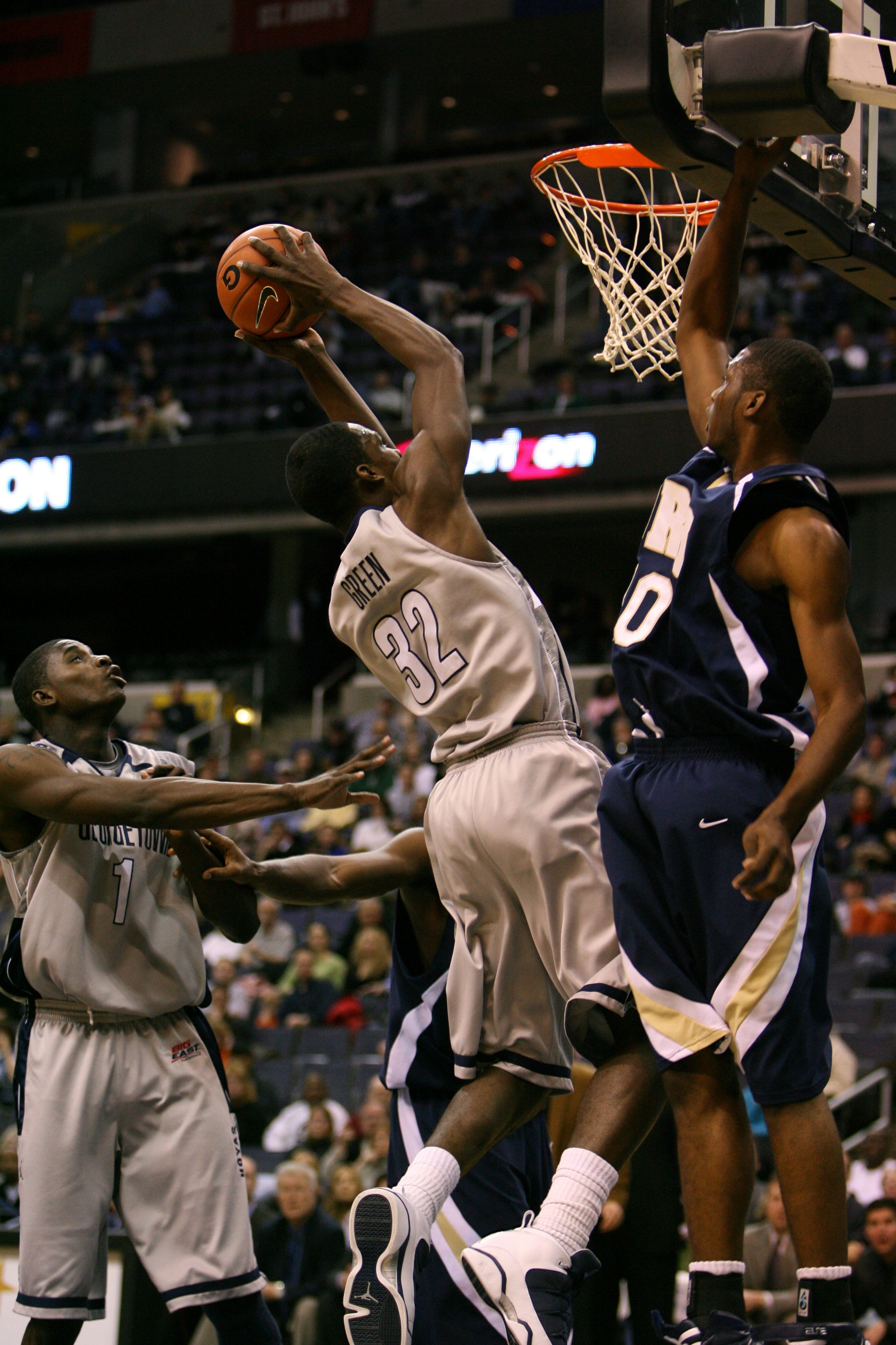 Georgetown Hoya Jeff Green jumps for the basket with Vernon Macklin behind him at a game against the Oral Roberts Golden Eagles